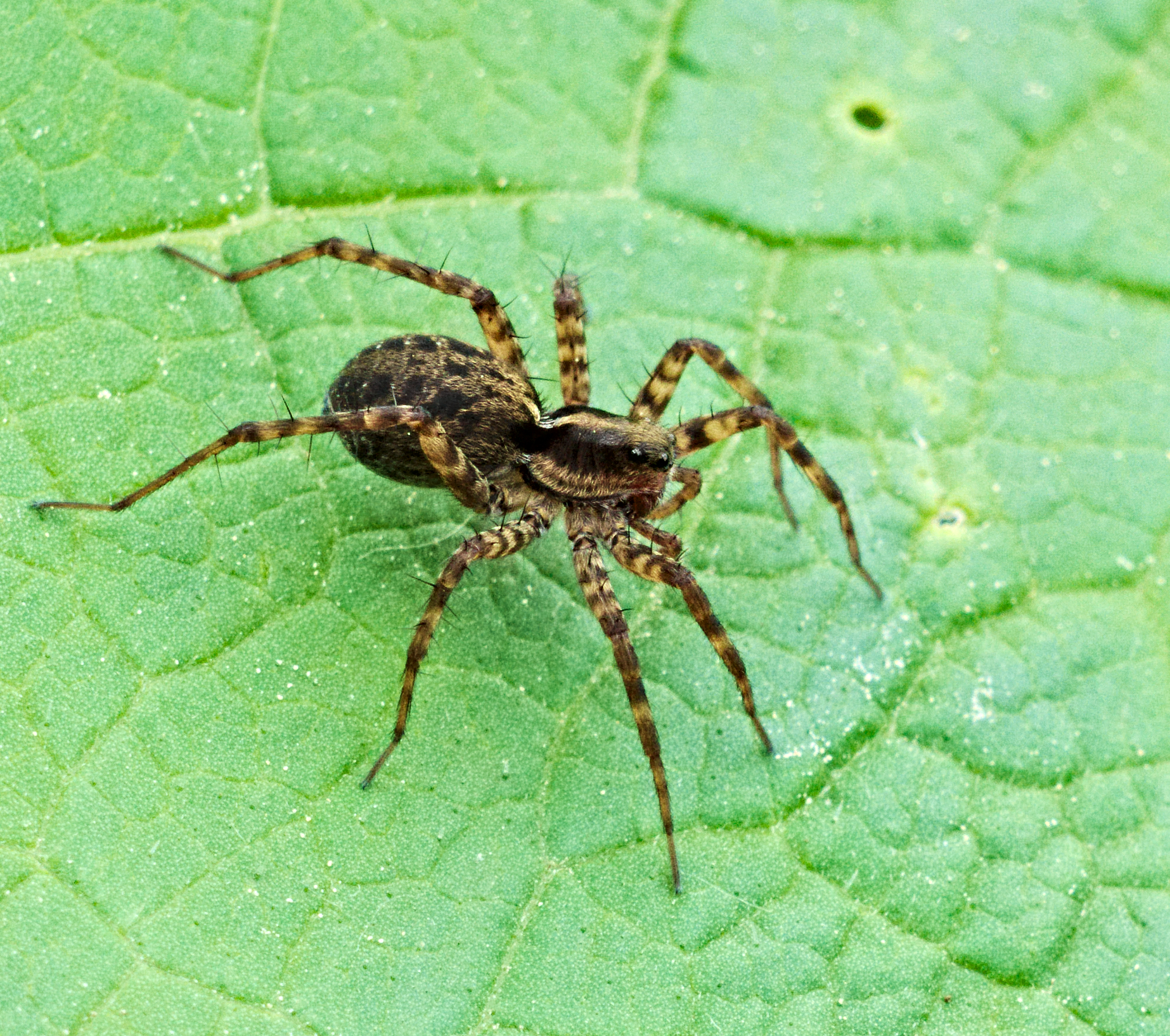 Pardosa lugubris, female. Taken in Mannheim, Kirschgartshäuser Schläge by the Bruchgraben, Baden-Württemberg, Germany.